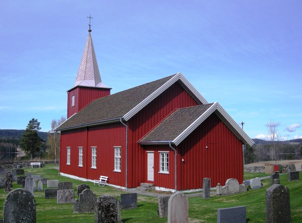 Rømskog church, Østfold, Norway